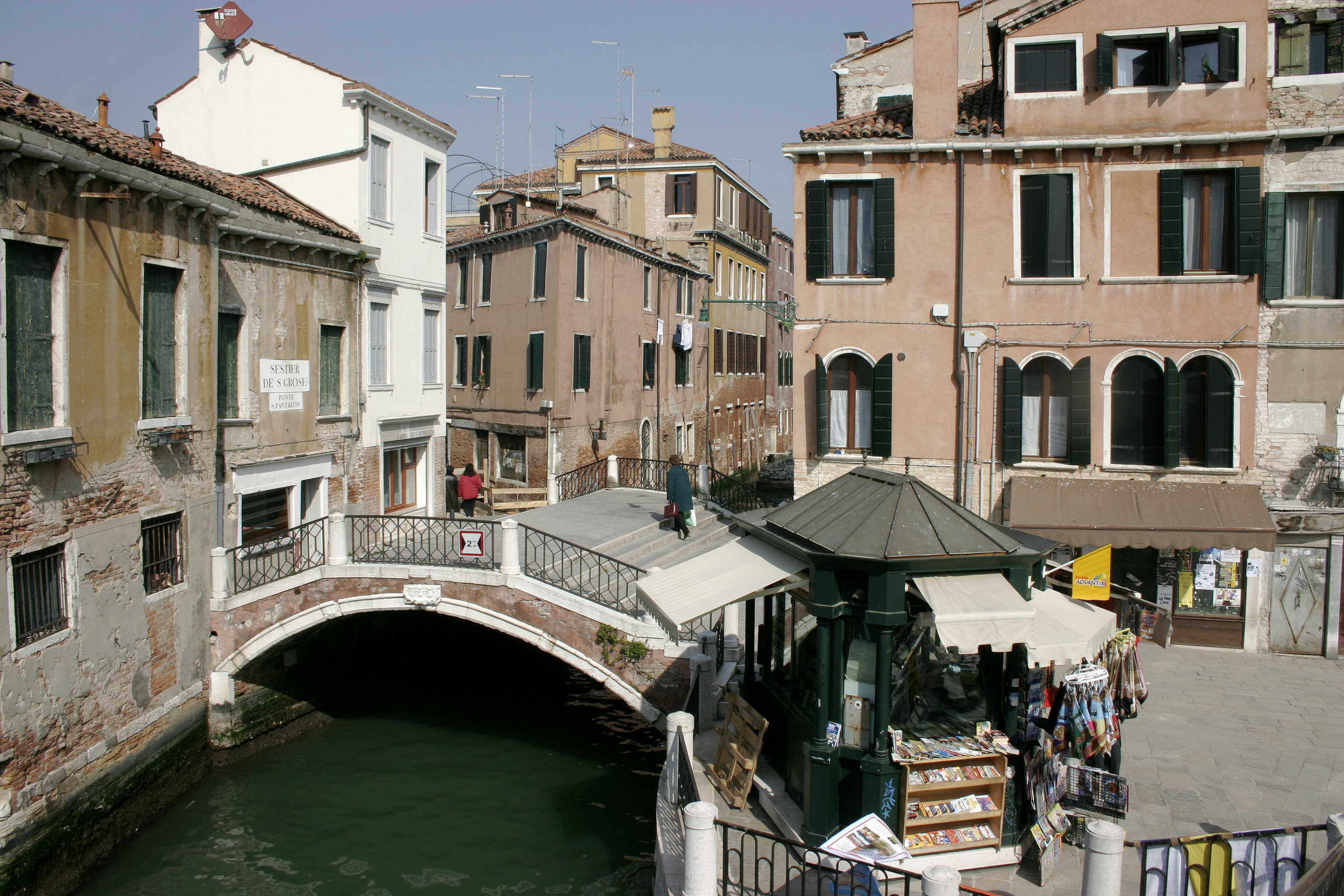 Venice - Campo and bridge S. Pantalon